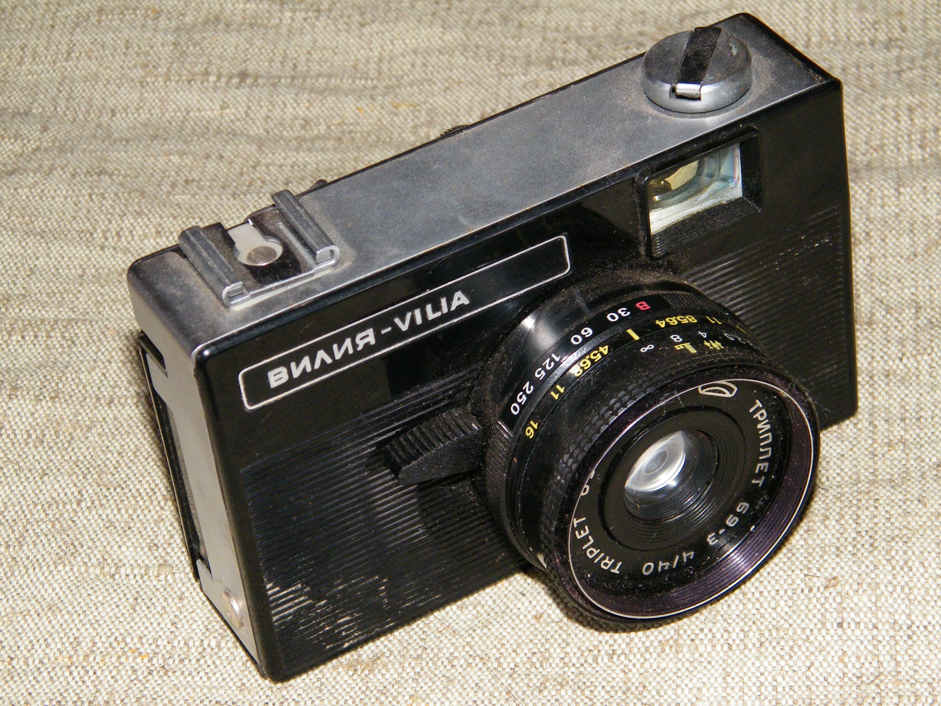 Фотоаппарат Вилия БелОМО